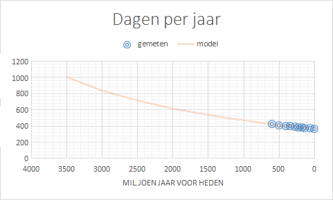 number of days in a year in distant past, effects of secular acceleration of the moon. Dutch version. Model after Arbab, data from corals